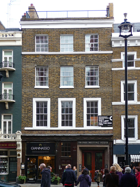 52-53 St Martin's Lane